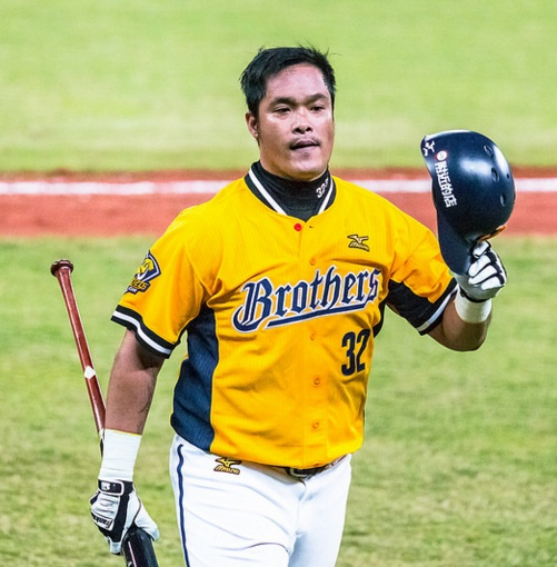 Lin Chih-sheng, a baseball player from Taiwan.